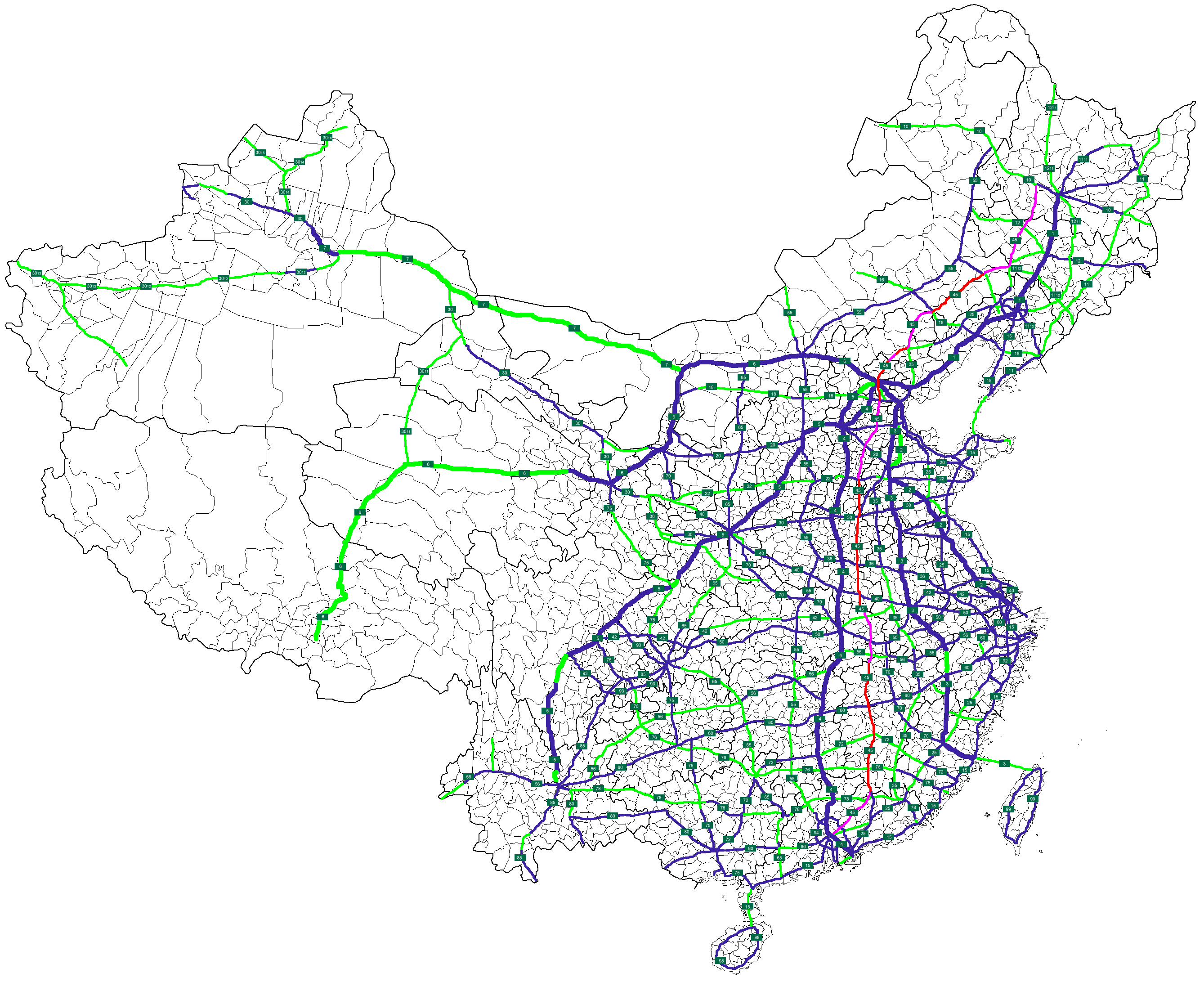 Source file(Map of NTHS Expressways of China.png) was uploaded ASDFGH at en.wikipedia. Later version(s) were uploaded by Nima Farid at en.wikipedia. Modification for NTHS Expressway G45 is my own work.